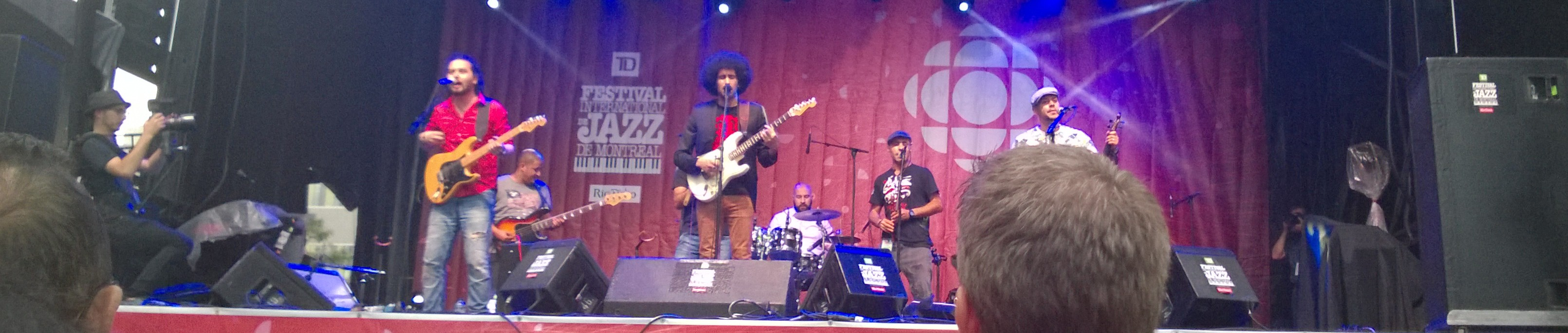 Djmawi Africa photographed in Montréal, Québec, Canada at the 2017 Montréal International Jazz Festival.